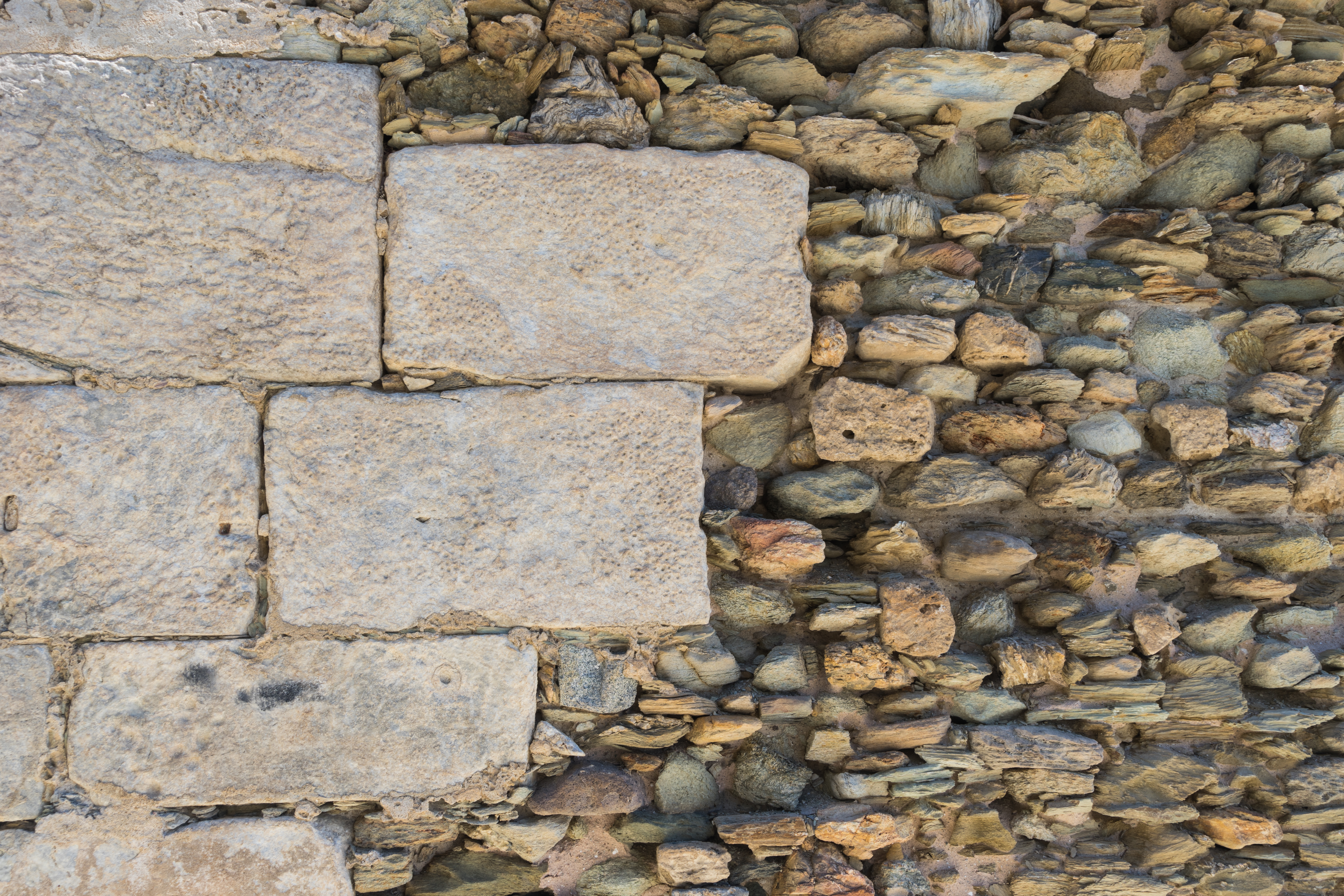 Wall of the Bourtzi castle, Karystos, Euboea, Greece